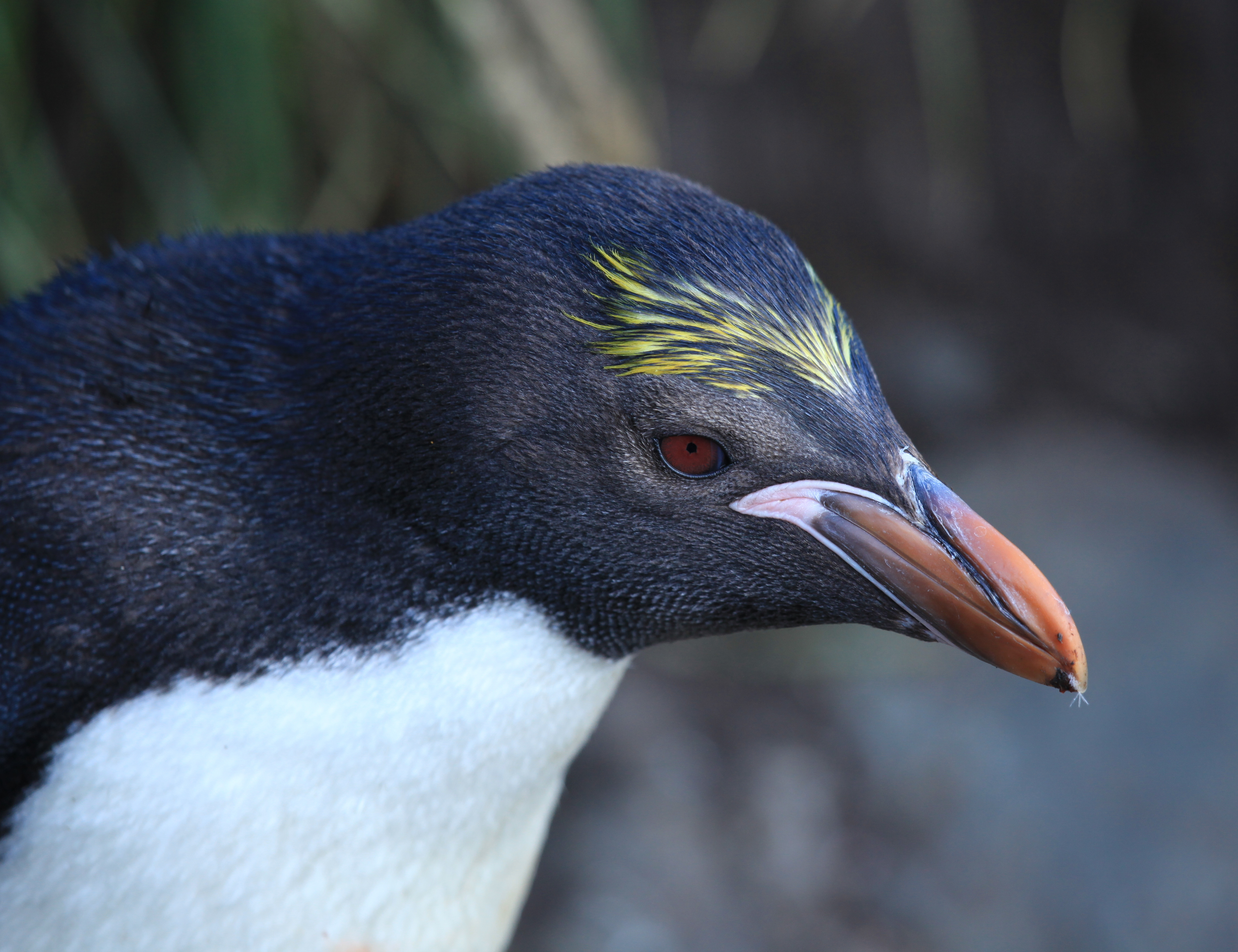 Macaroni Penguin at Cooper Bay, South Georgia